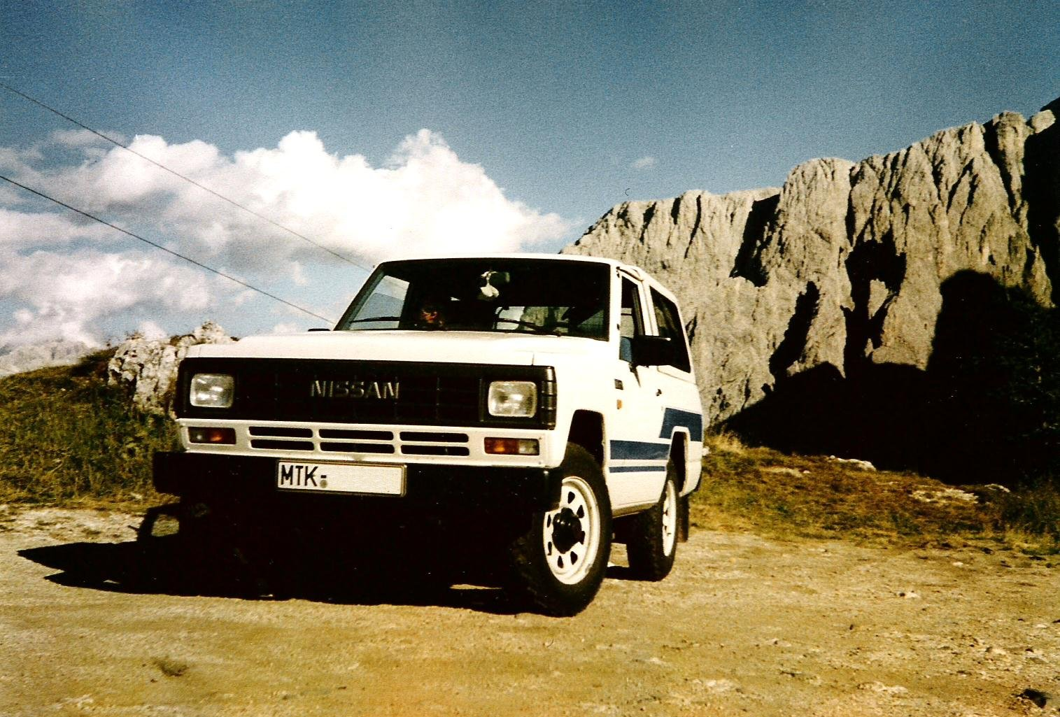 Nissan Patrol 160